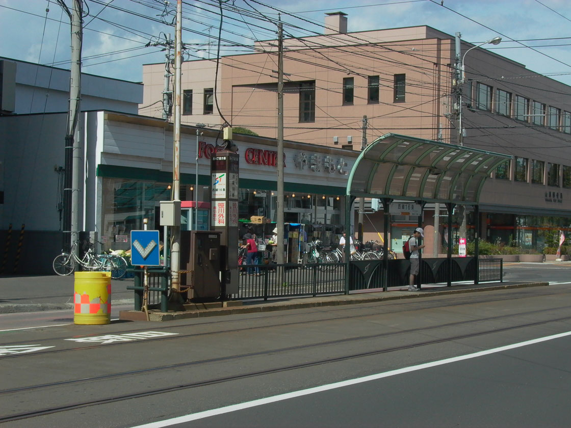 Nishisen Jurokujo station, Sapporo, Hokkaido, Japan